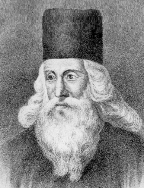 Sulkhan-Saba Orbeliani